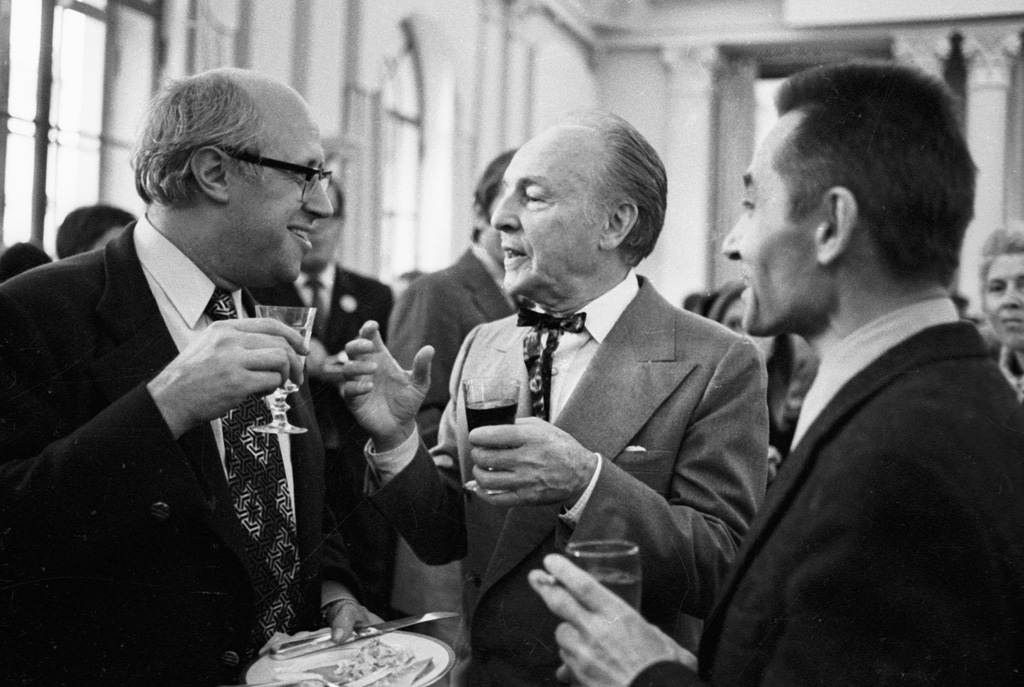 “Mstislav Rostropovich, George Balanchine and Yuri Grigorovich”. Left to right: soviet cello player Mstislav Rostropovich, choreographer George Balanchine and chief choreographer of the USSR Bolshoi Theater Yuri Grigorovich at the reception on the occasion of the U.S. New York City Ballet troupe tour in Moscow.